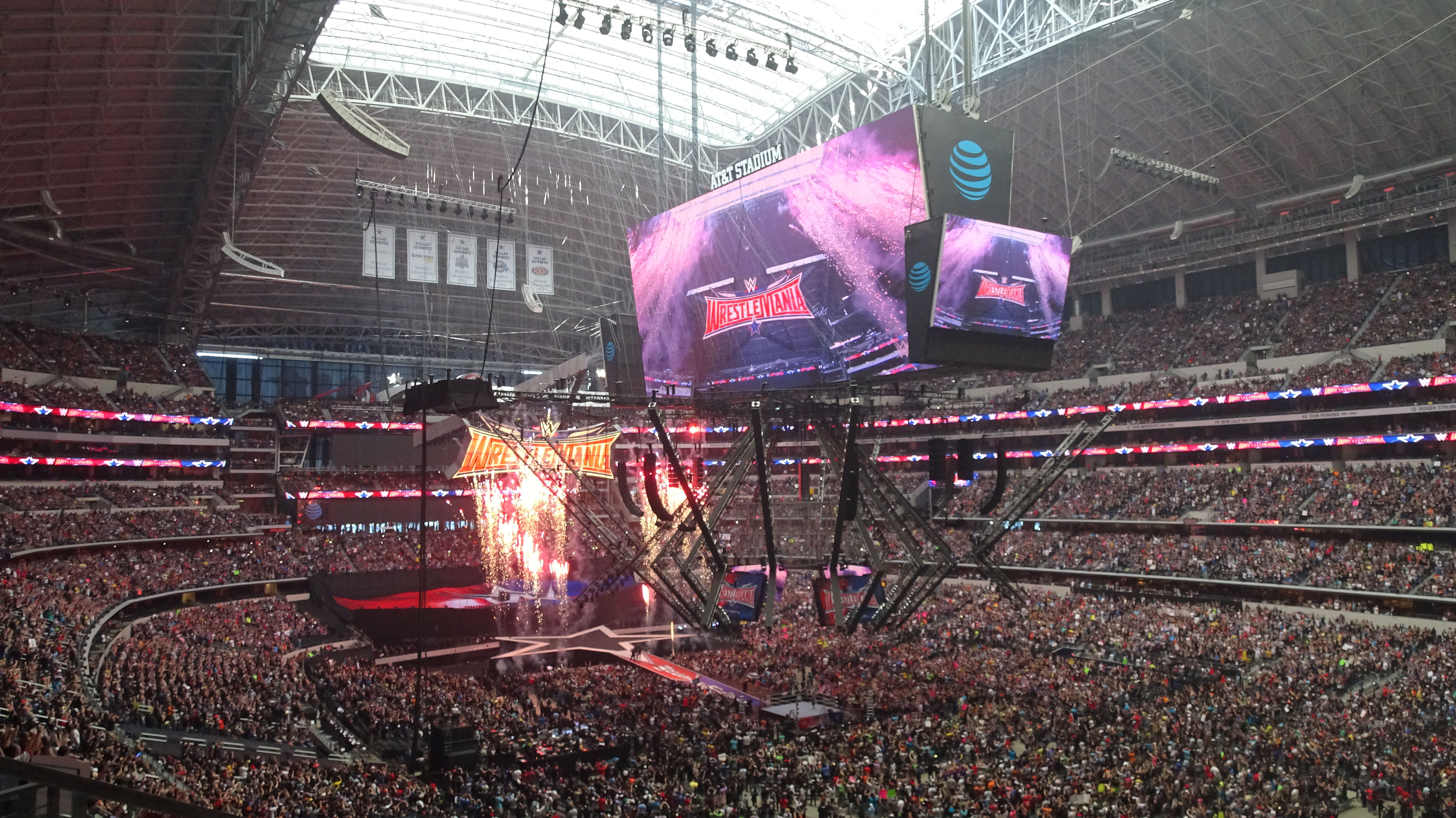 WrestleMania 32 was the thirty-second annual WrestleMania professional wrestling pay-per-view (PPV) event produced by WWE. It took place on April 3, 2016, at AT&T Stadium in Arlington, Texas. Twelve matches were contested on the card (with three matches occurring on the WrestleMania Kickoff pre-show - two airing live on the USA Network, which televised the second hour of the pre-show). Zack Ryder def. Dolph Ziggler, Kevin Owens (c), Sami Zayn, Sin Cara, Stardust, The Miz (in 15:24) Type of match : Ladder (7-way) For : WWE Intercontinental Championship(title change) Rating : ****